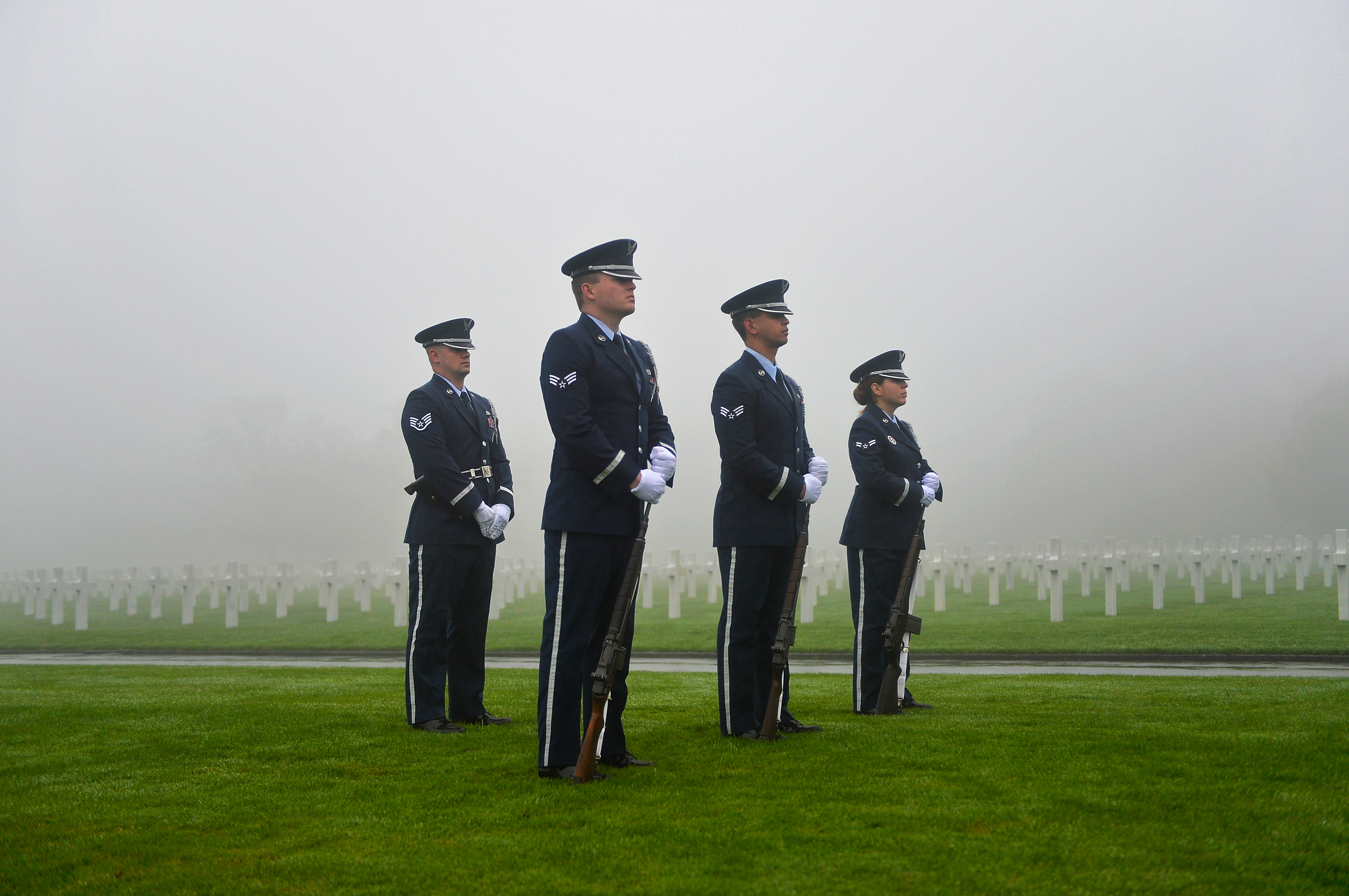 Members of an Air Force honor guard team stand in formation during a Veterans Day ceremony at Henri-Chapelle American Cemetery and Memorial, Belgium, Nov. 11, 2017. The team conducted a three volley salute which historically signifies an end to hostilities for a period of time. The Airmen hailed from the 86th Civil Engineer Group.